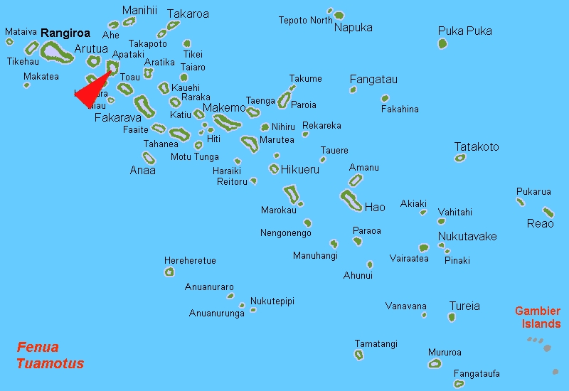 Locator map for individual atolls in the Tuamotus